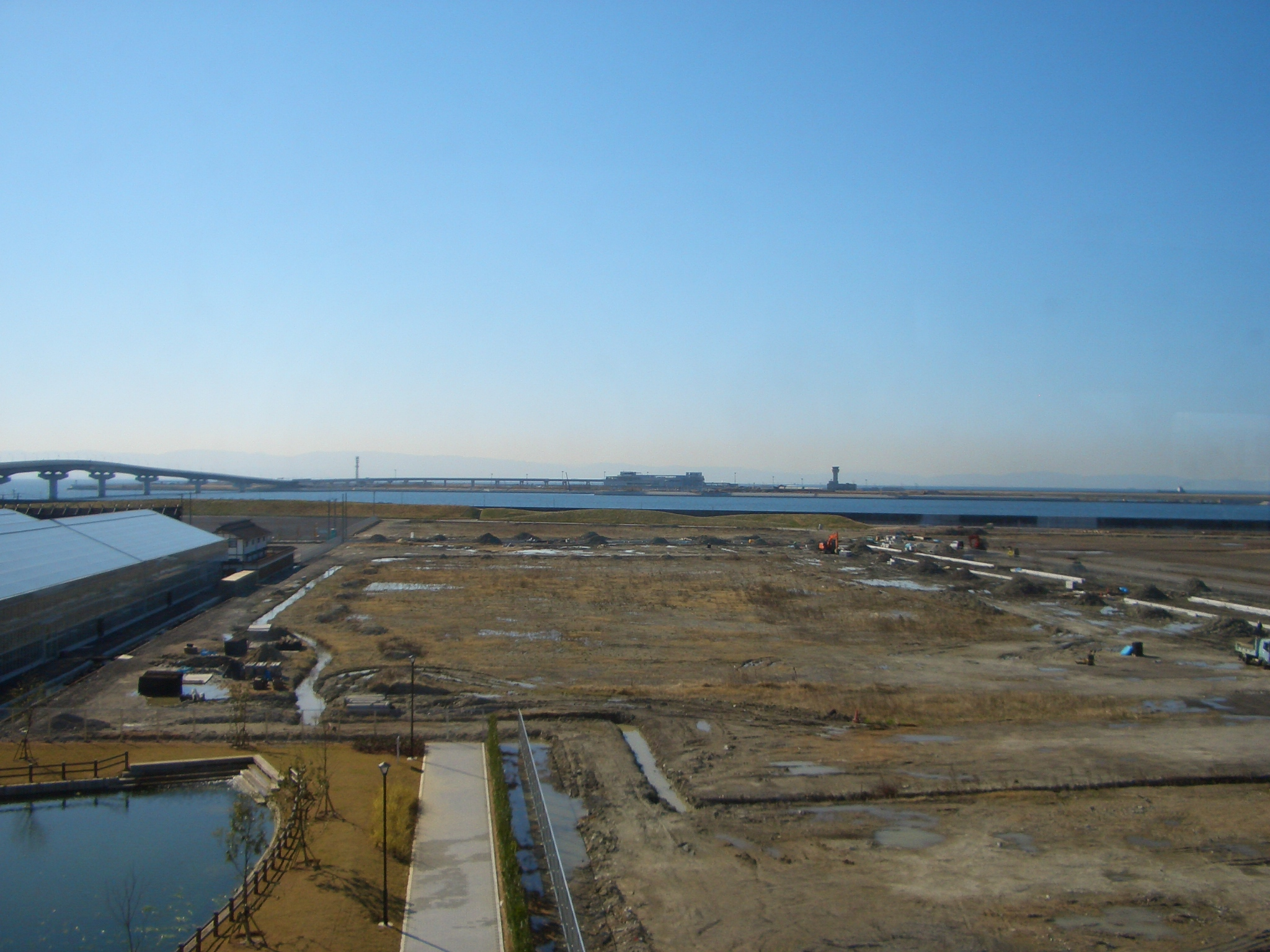 Portisland South Station in Kobe,Japan. ポートアイランド南駅から神戸空港を望む